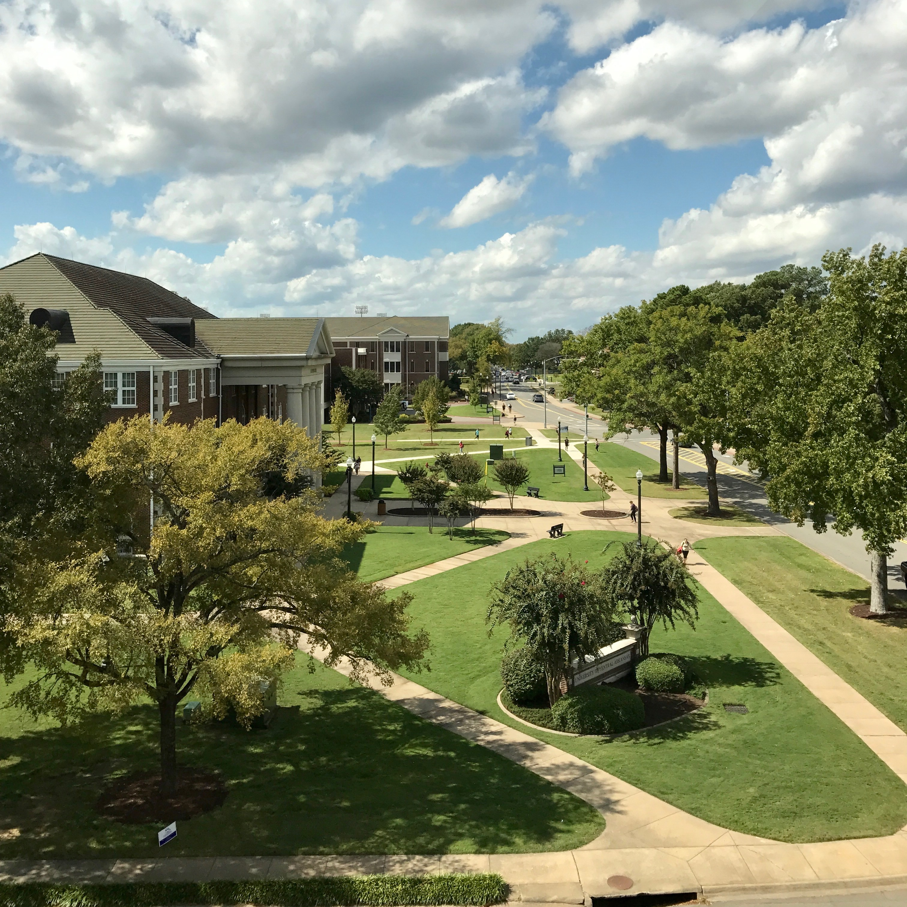 View of UCA along Bruce Street.